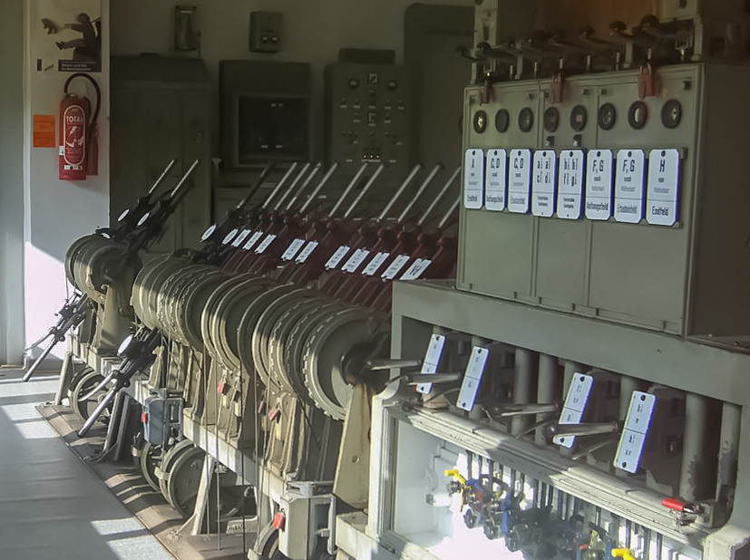 Schopp, Railway Station, Inside